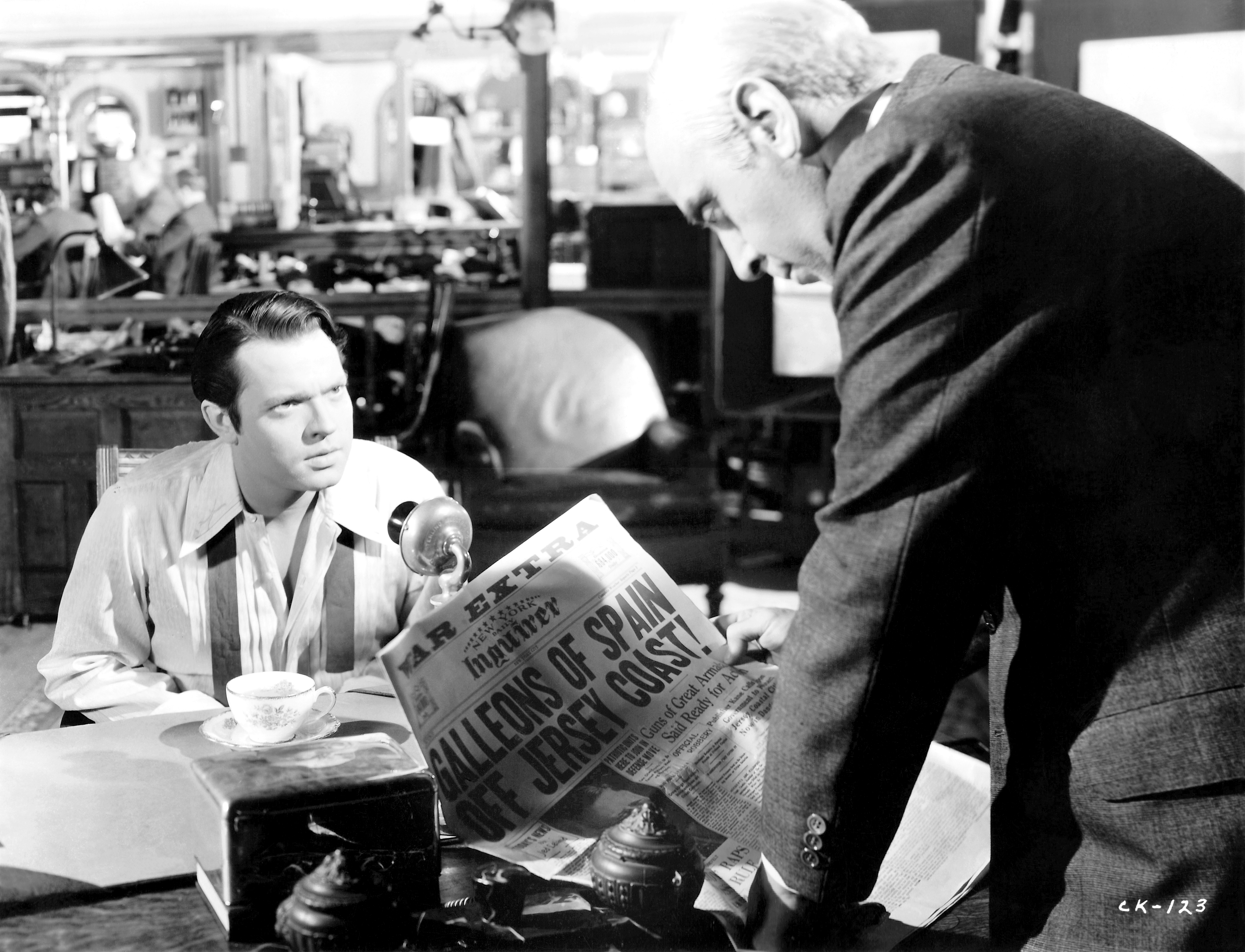 Promotional still for the 1941 film, Citizen Kane Image is marked CK-123 at lower right